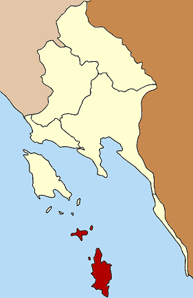 Map of Trat province, Thailand, highlighting Amphoe Ko Kut (geocode 2306).